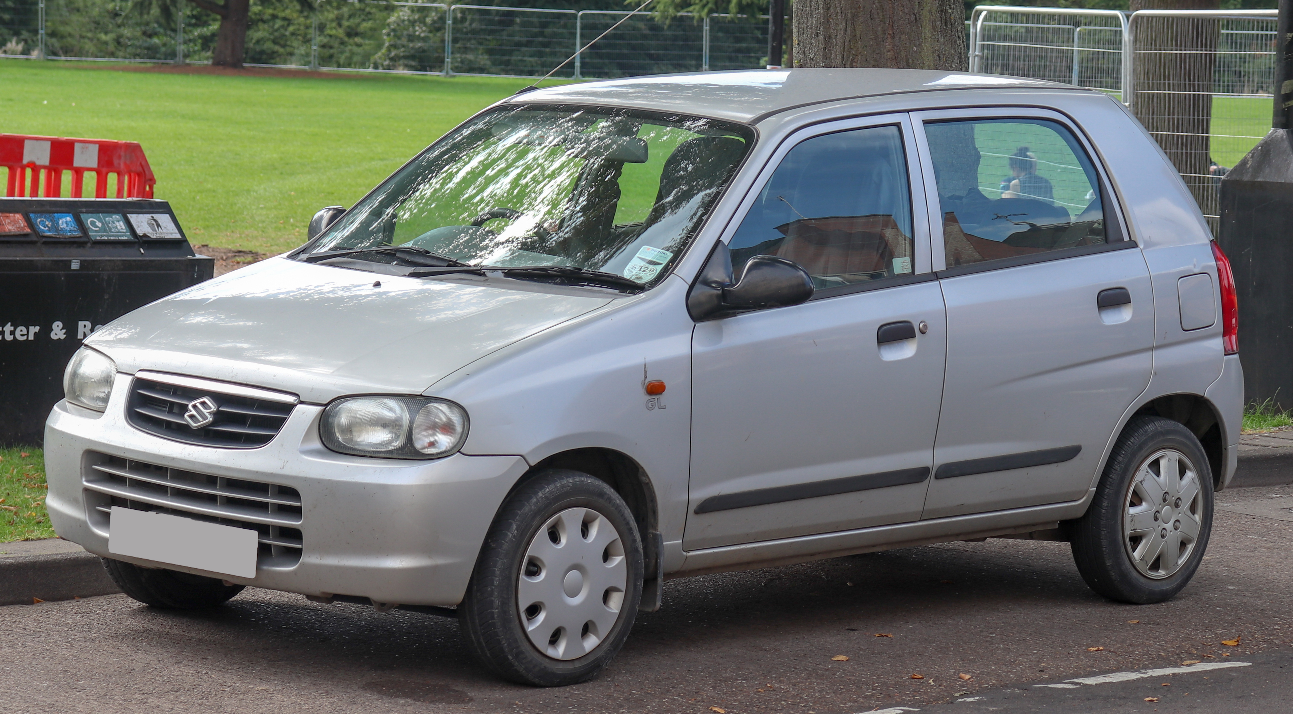 2004 Suzuki Alto GL 1.1 Front Taken in Leamington Spa